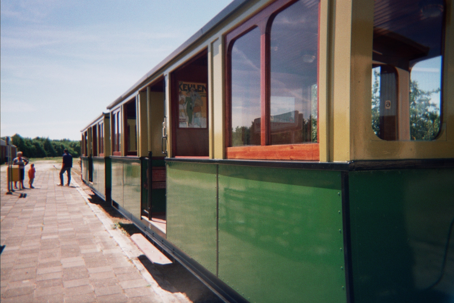 P-series tram wagons used by the SVM (Katwijk) for tourist steam tram rides. Built: 1980-2002. Narrow gauge (700mm). Picture taken at tramstop Valkenburgse Meer at Saturday 16 July 2006.